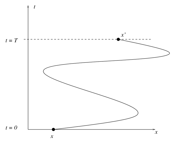 Particle-path